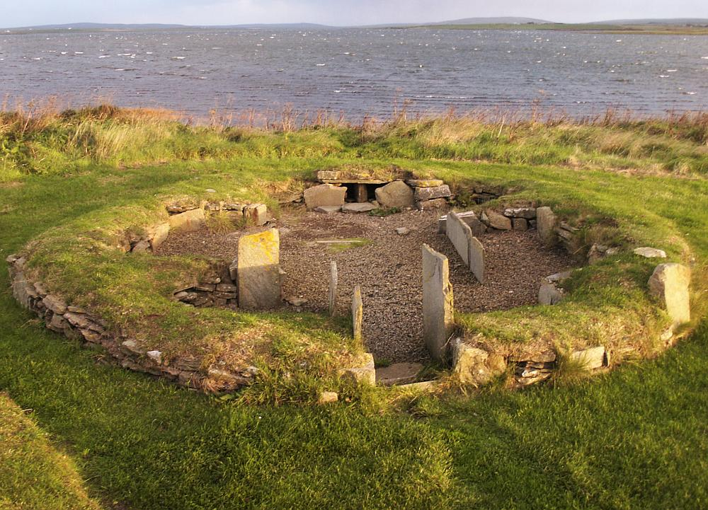 Photograph of "House 3" of the Barnhouse settlement